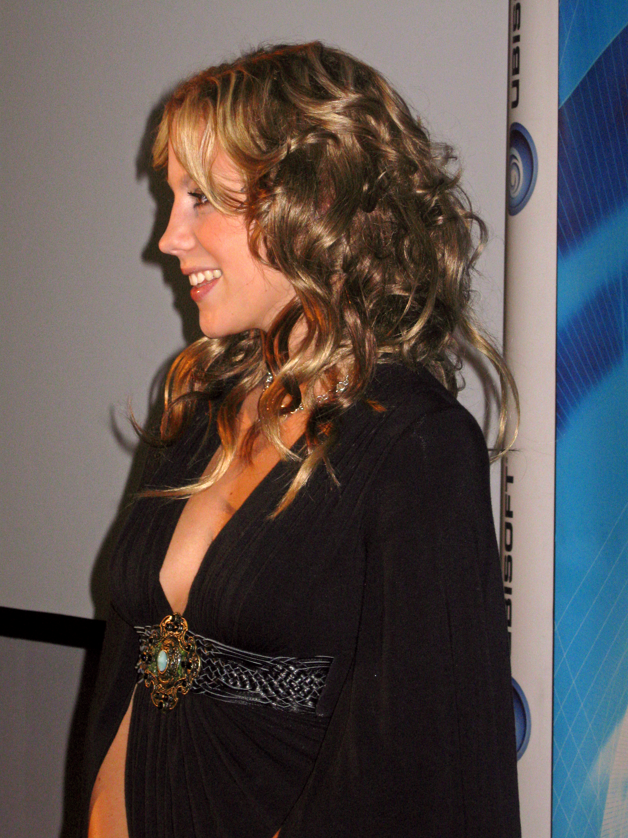 LaFee at the Ubisoft Press Conference during the Games Convention 2008.